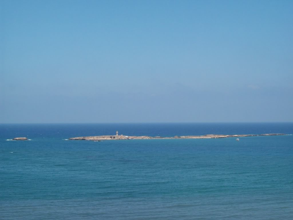 ziri island